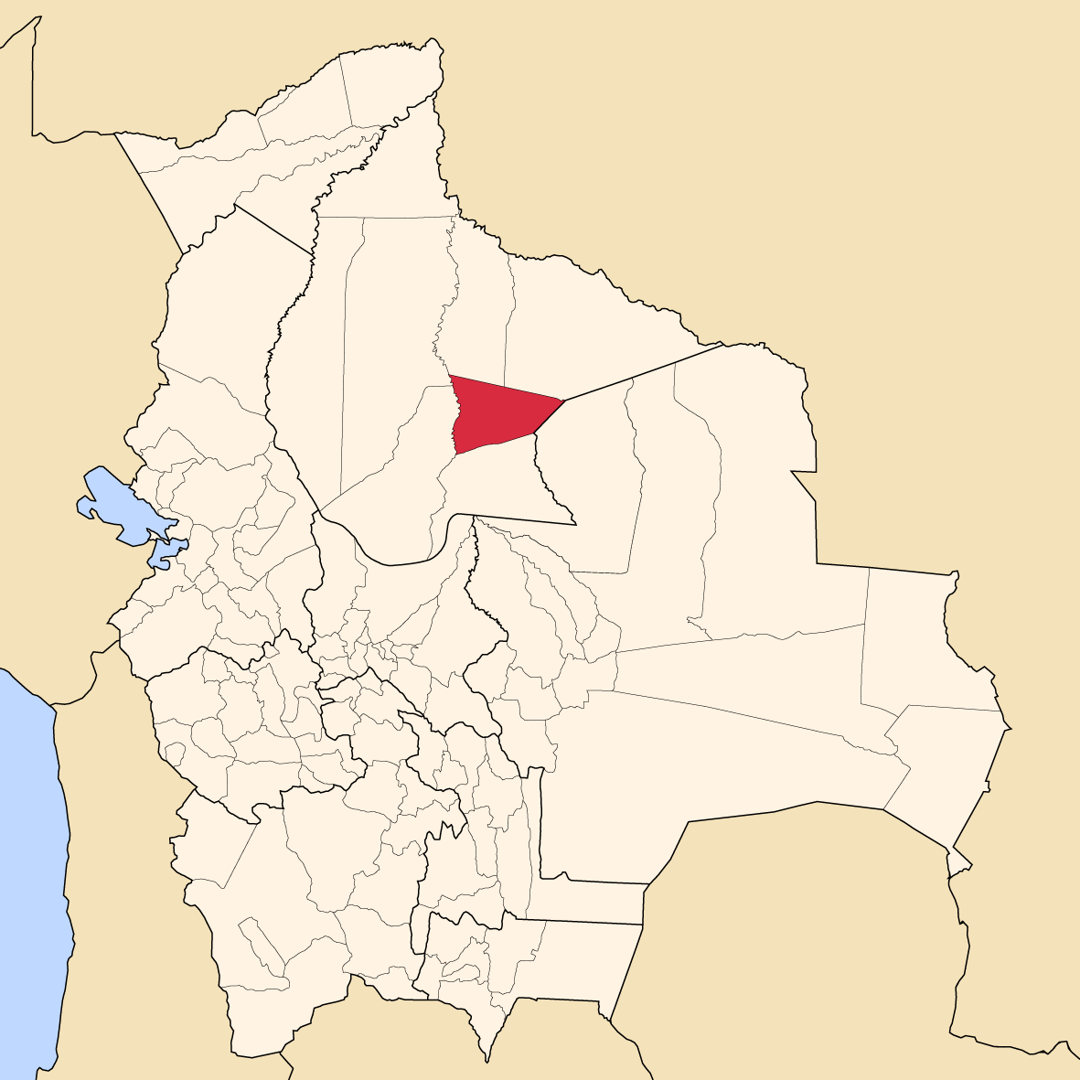 Map of Bolivia showing Cercado province, Beni